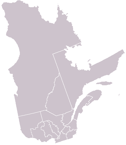 Plank Quebec districts map